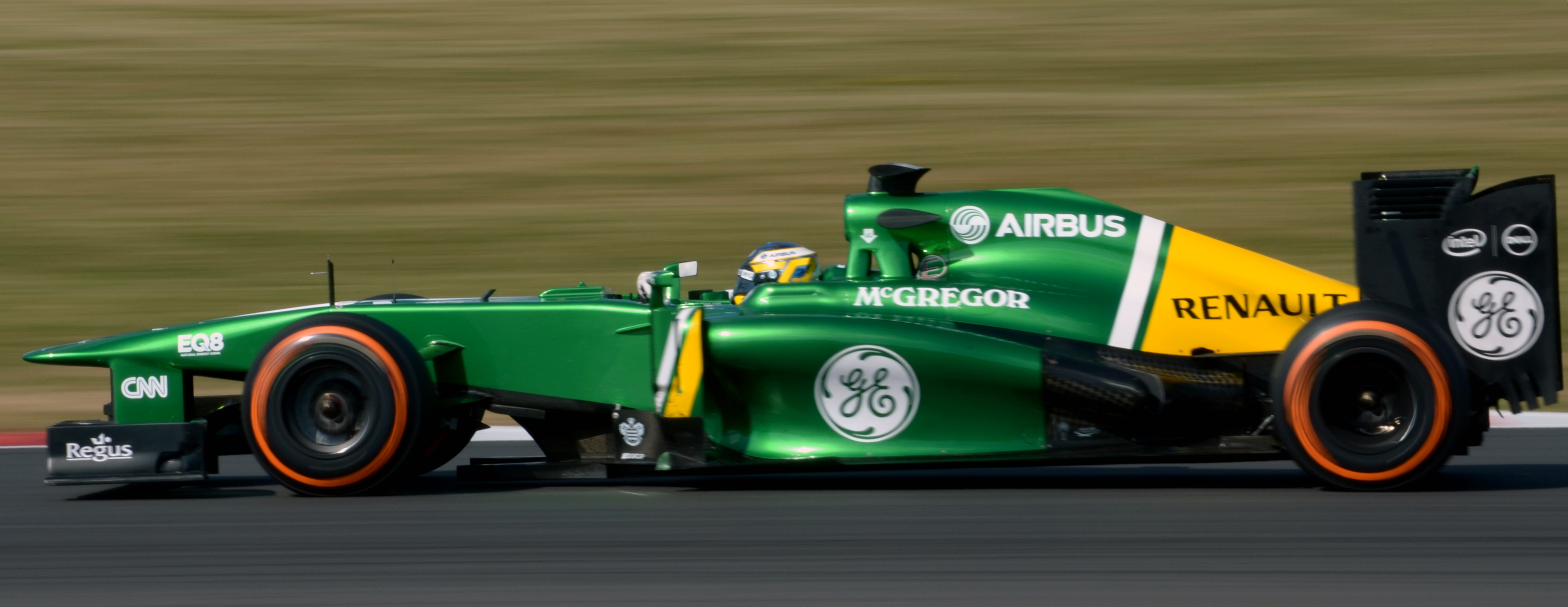 Charles Pic driving the Caterham CT03 at the Young Drivers' Test at Silverstone.